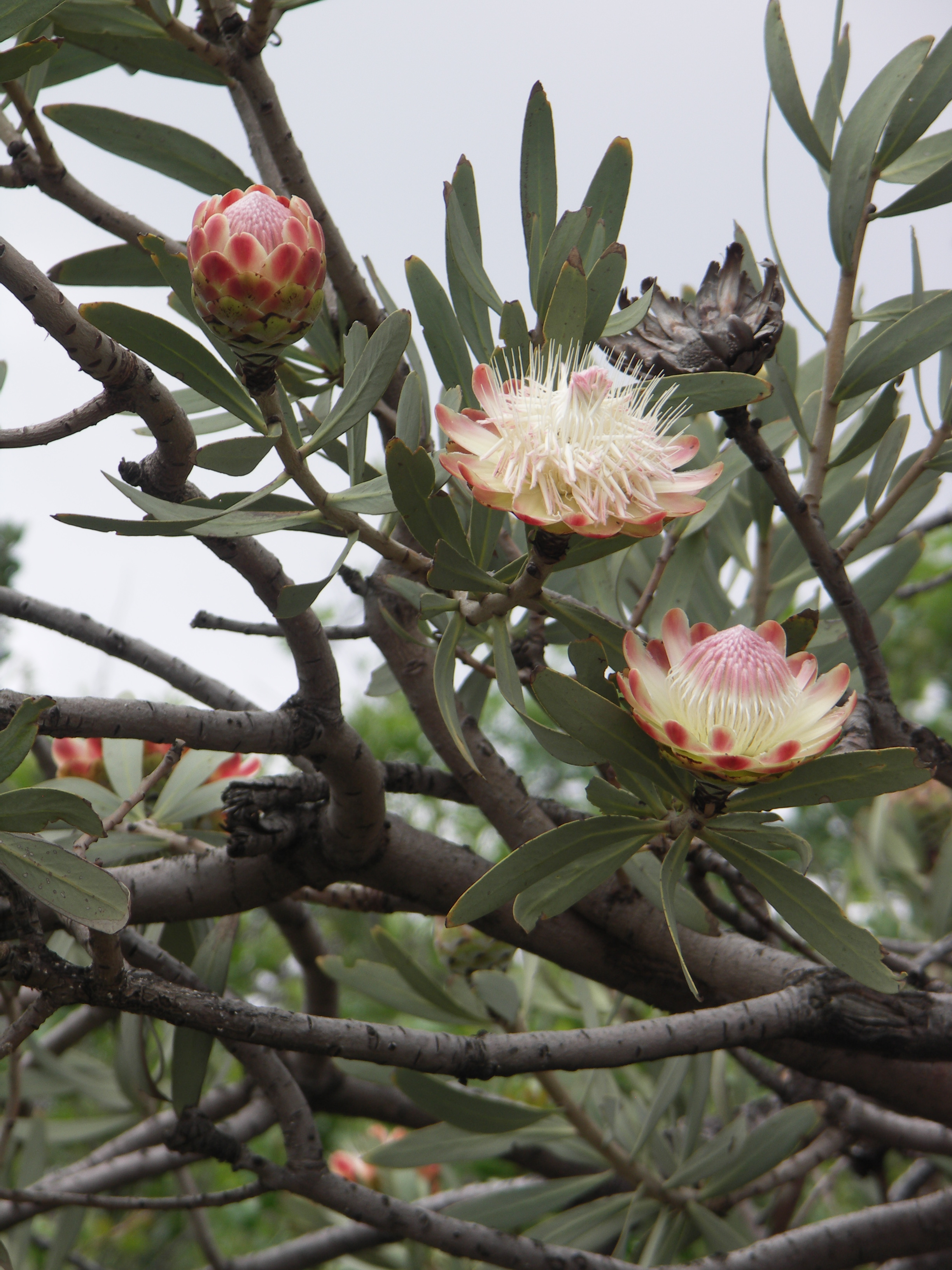 Protea Cafra (sugarbush) in Suikerbosrand Nature Reserve